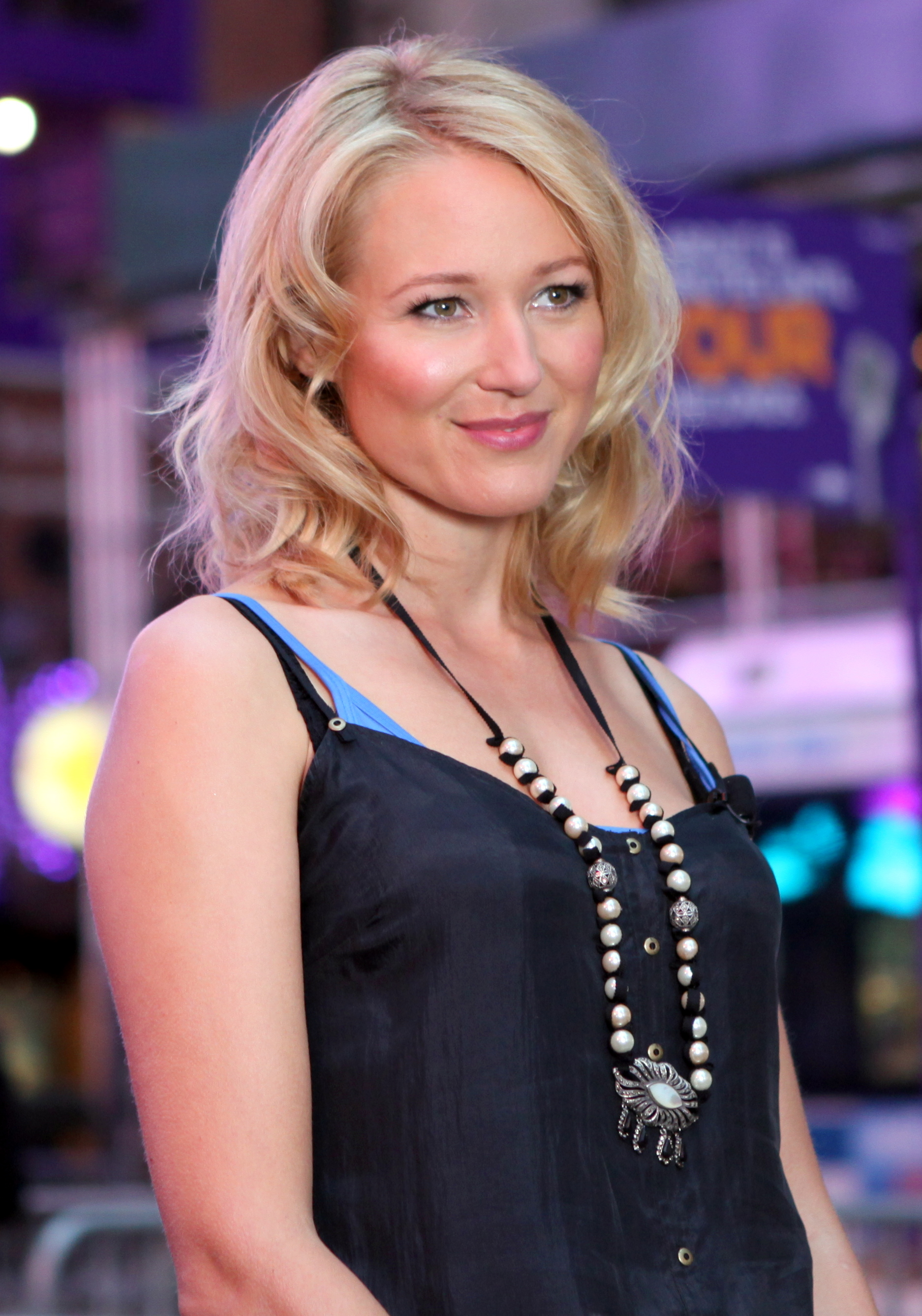 Jewel at Yahoo Yodel 2009.